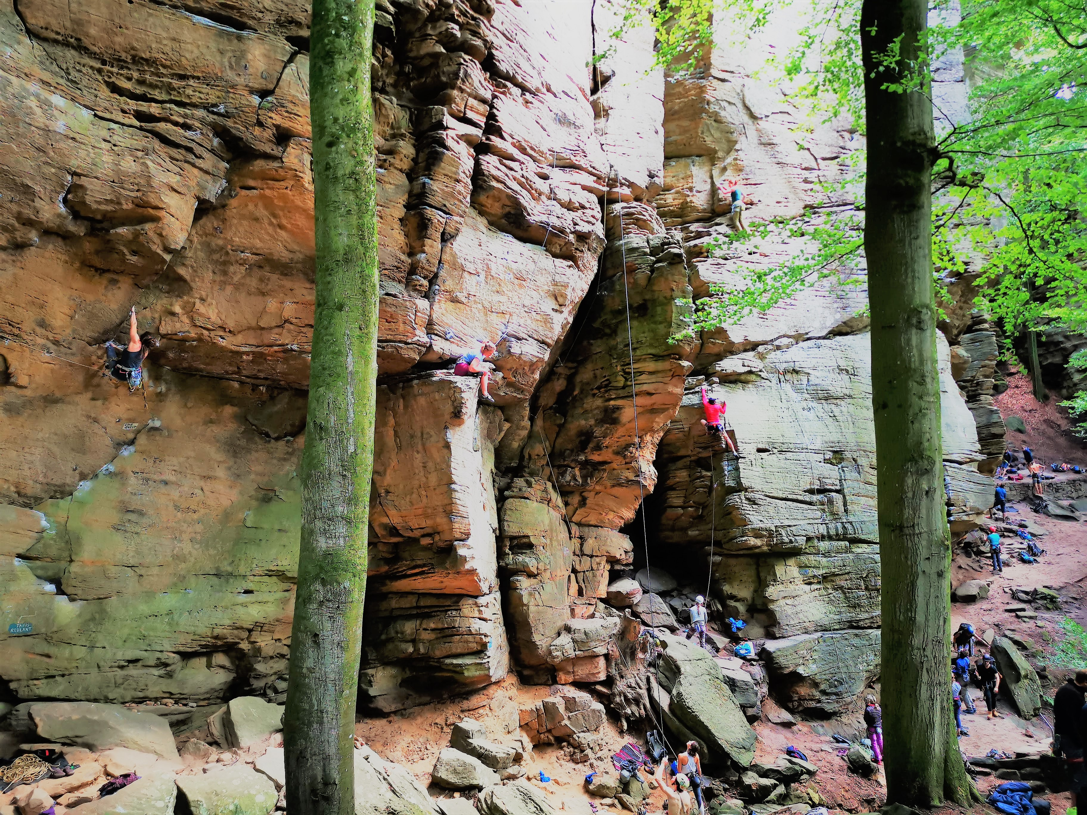 Climbing on the sandstone crag of Wanterbaach outside the village of Berdorf, Luxembourg.